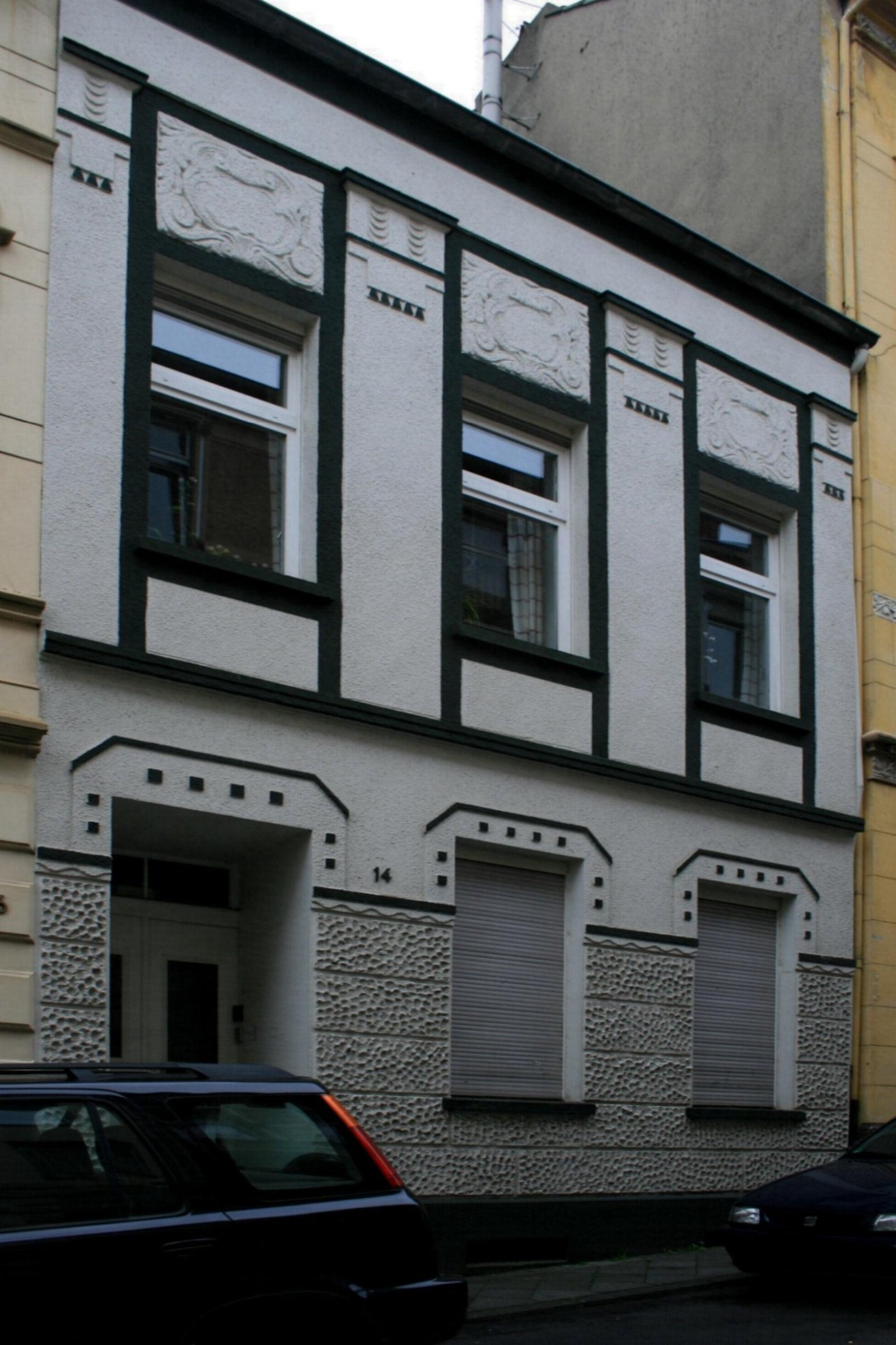 Cultural heritage monument No. L 024 in Mönchengladbach